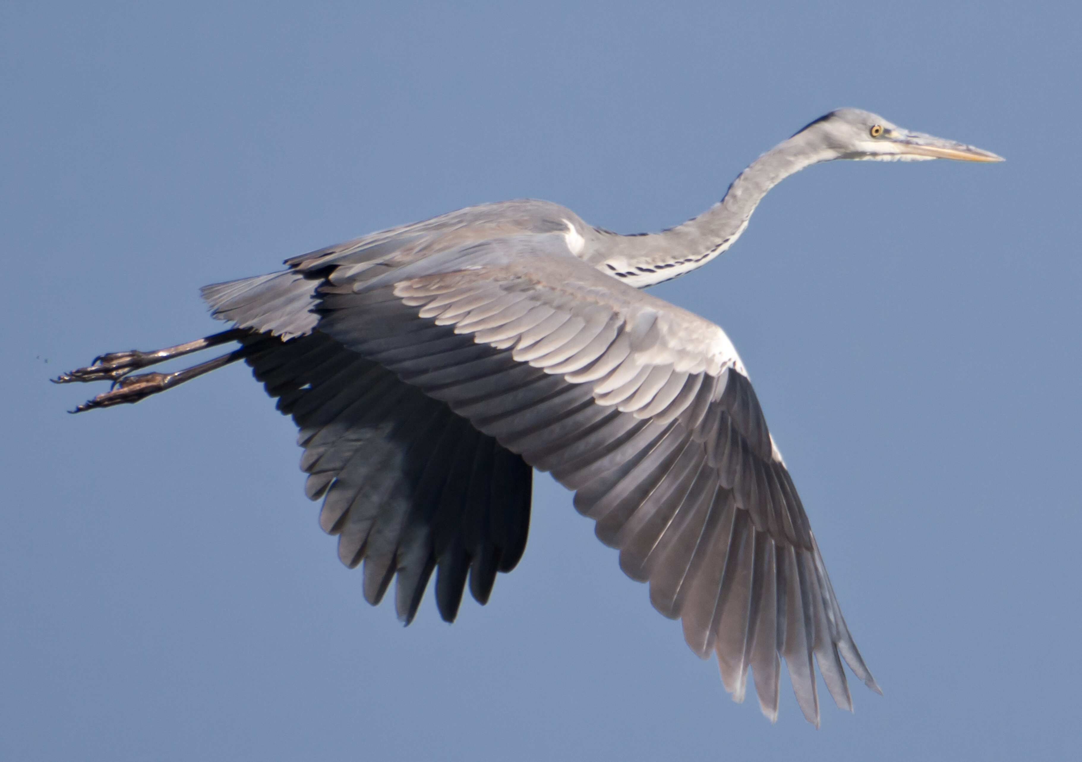 Grey heron in flight.